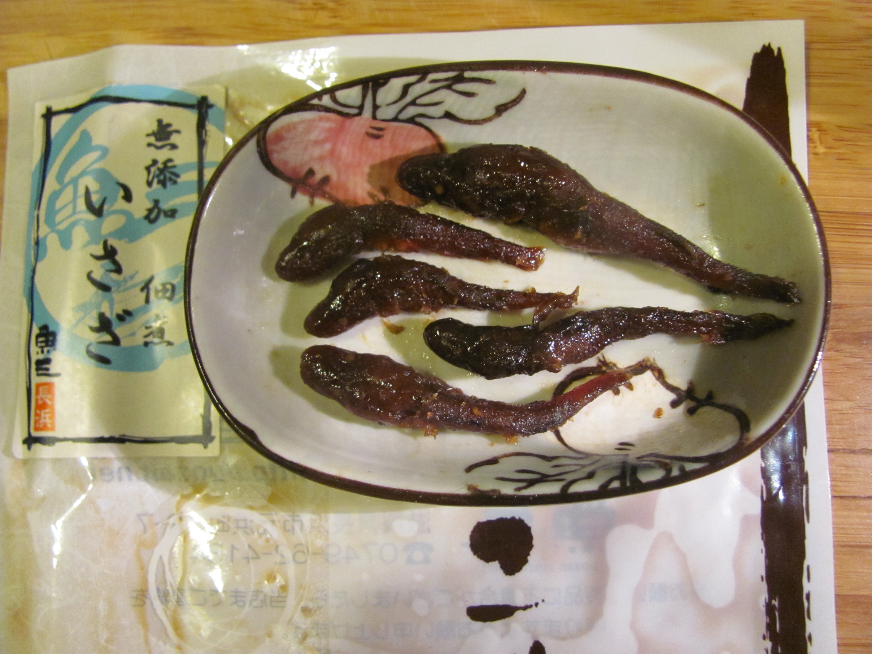 A sample of the fish isaza (Gymnogobius isaza) of Lake Biwa, made into tsukudani preparation.